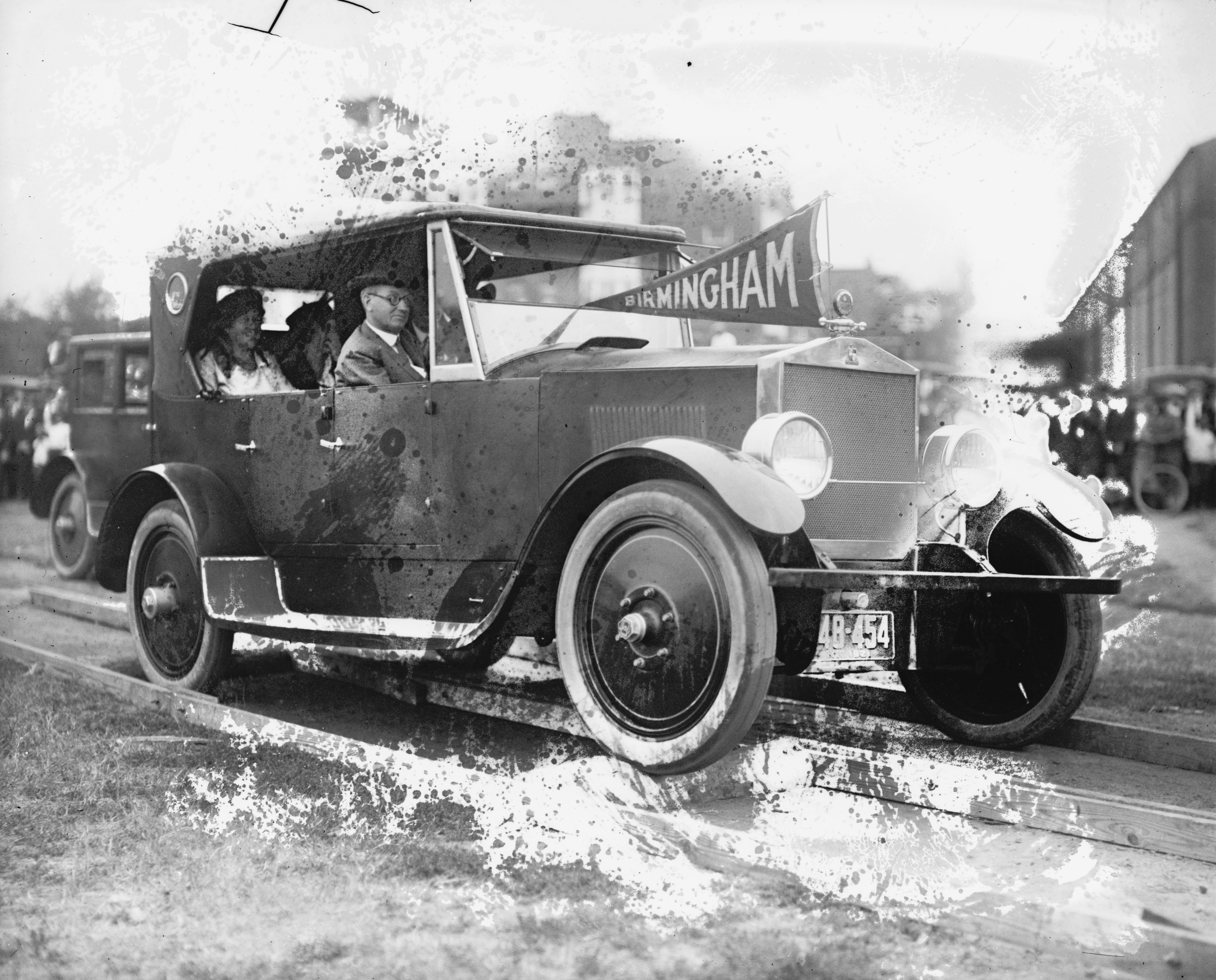 Birmingham Motors automobile demonstration